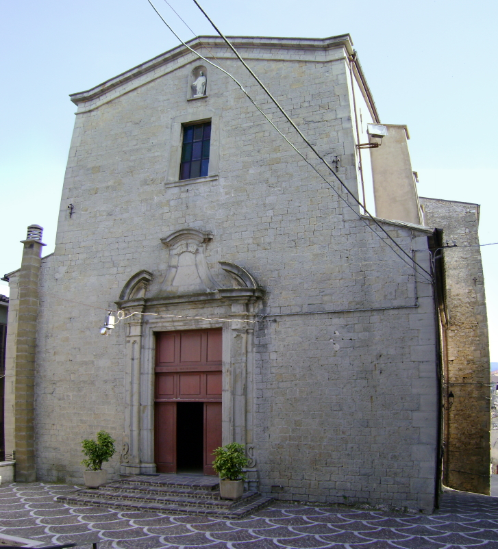 The church of San Silvestro, Montazzoli, province of Chieti, Abruzzo